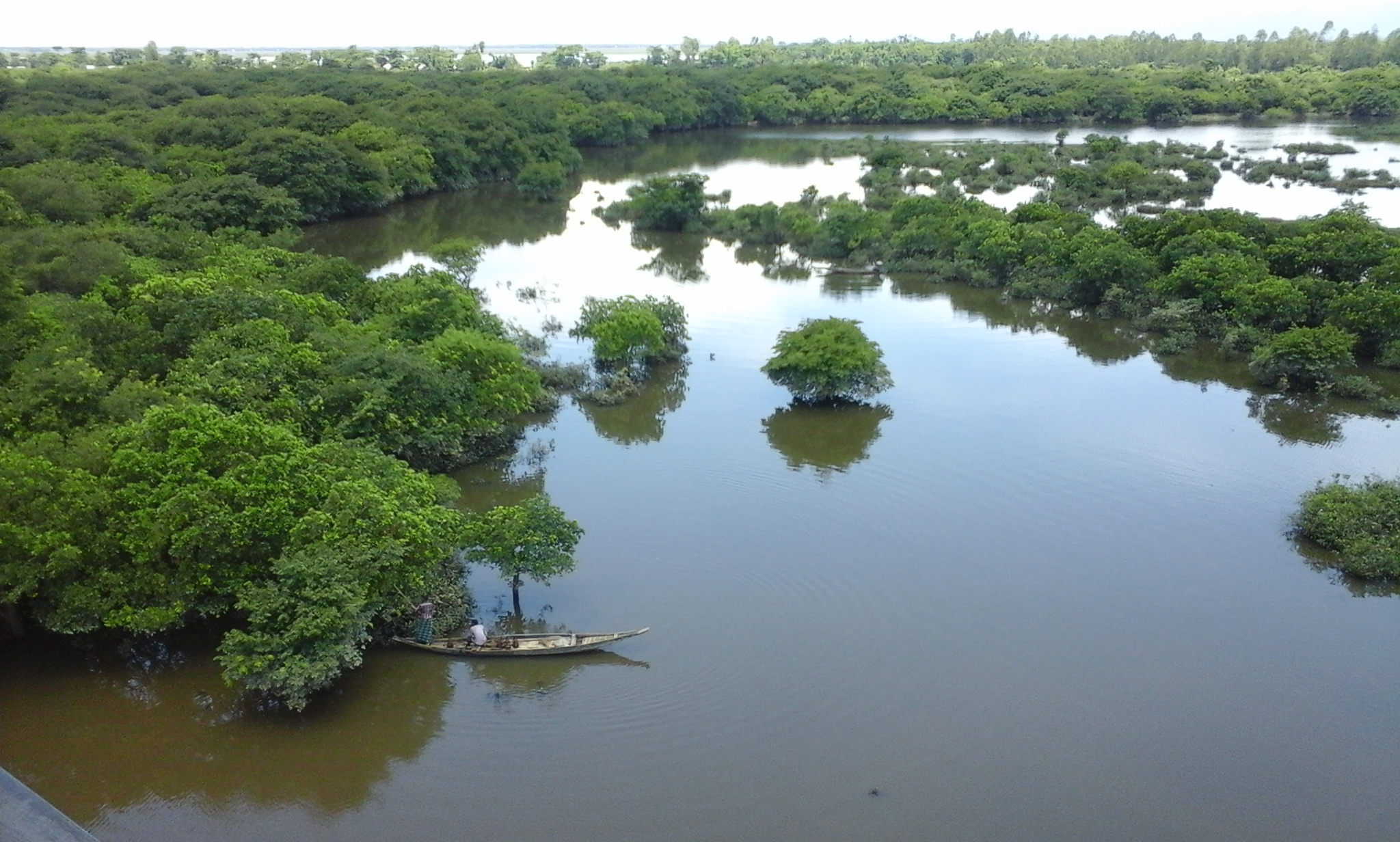 Freshwater swamp forest in Gowainghat of Sylhet district, Bangladesh. This photo is taken by Toriqul Islam in July 2016.